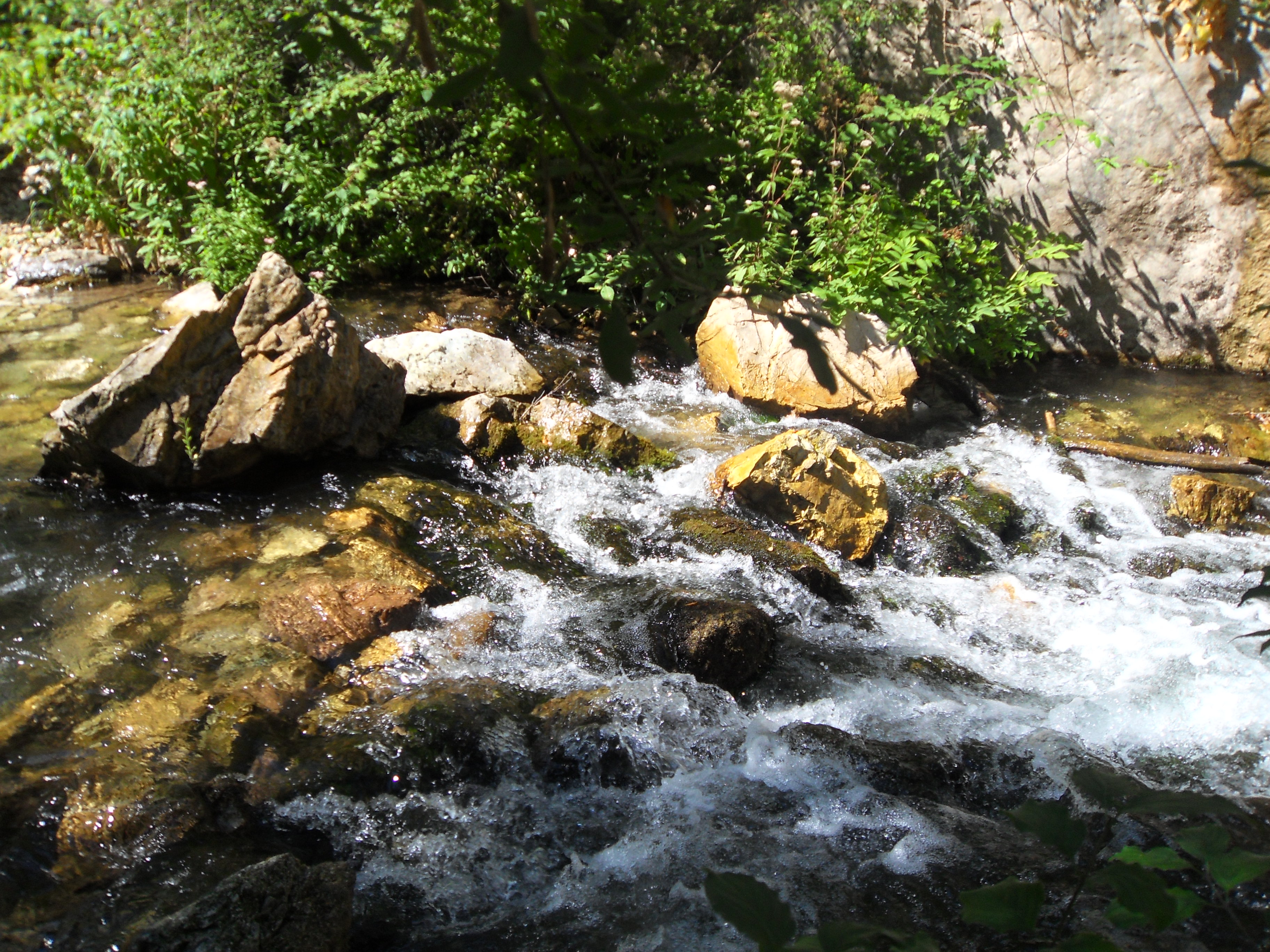 Fiume Fiastrone